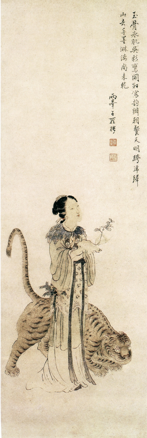 Mountain Witch, Luo Pin, Qing Dynasty, China, Art School of Tsinghua University